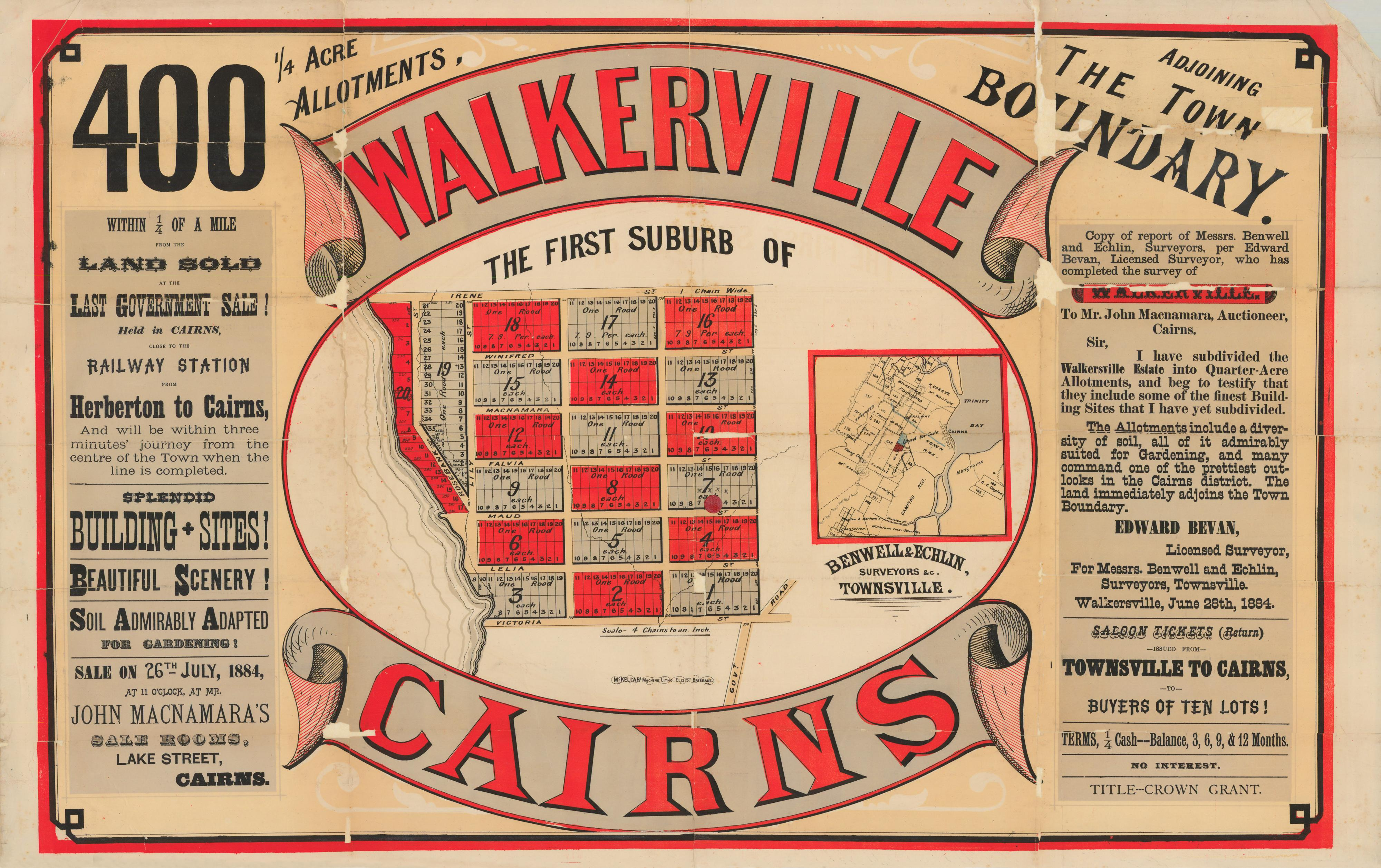 Creator: John MacNamara, auctioneer. Benwell & Echlin, surveyors. Location: Cairns, Queensland. Description: Land for sale is 400 1*/4 acre allotments to be auctioned on 26 July, 1884. Published by McKellar Machine lithographer (Brisbane). 64 x 101 cm. Scale [1:3,168]. 4 chains to an inch. Map includes conditions of purchase and locality map. Read more about SLQ's map collections: View this image at the State Library of Queensland: Information about State Library of Queensland’s collection: You are free to use this image without permission. Please attribute State Library of Queensland.